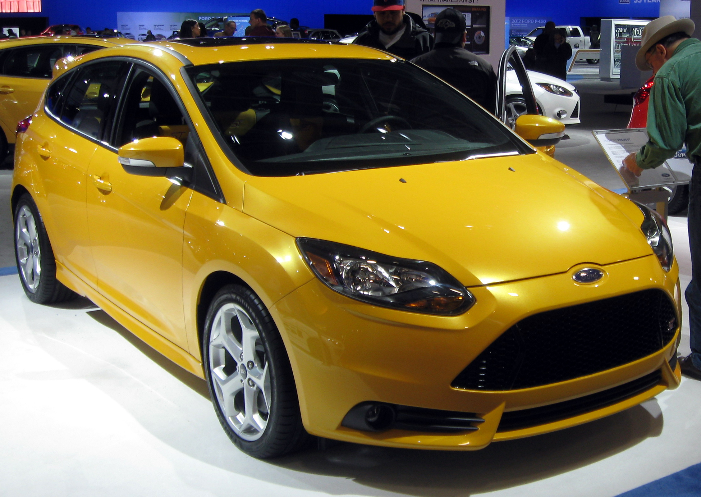 2013 Ford Focus photographed in Washington, D.C., USA.